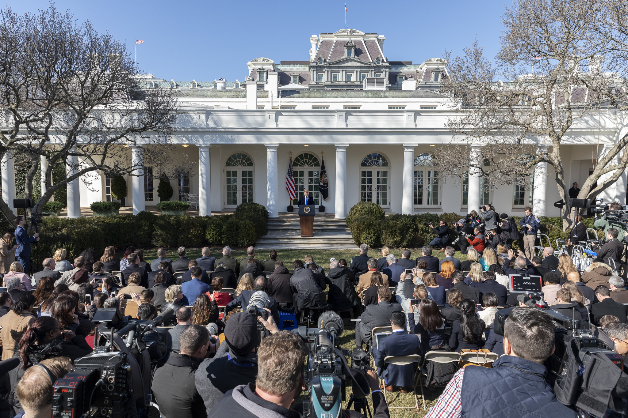 President Donald J. Trump delivers remarks Friday, Feb. 15, 2019, in the Rose Garden of the White House, on the national security and humanitarian crisis on the southern border of the United States. (Official White House Photo by Joyce N. Boghosian)